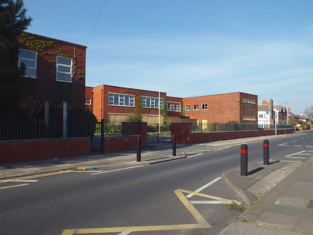 Buildings of the closed Arnold School, Arnold Avenue, Blackpool